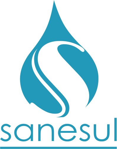 Logomarca da Empresa de Saneamento de Mato Grosso do Sul